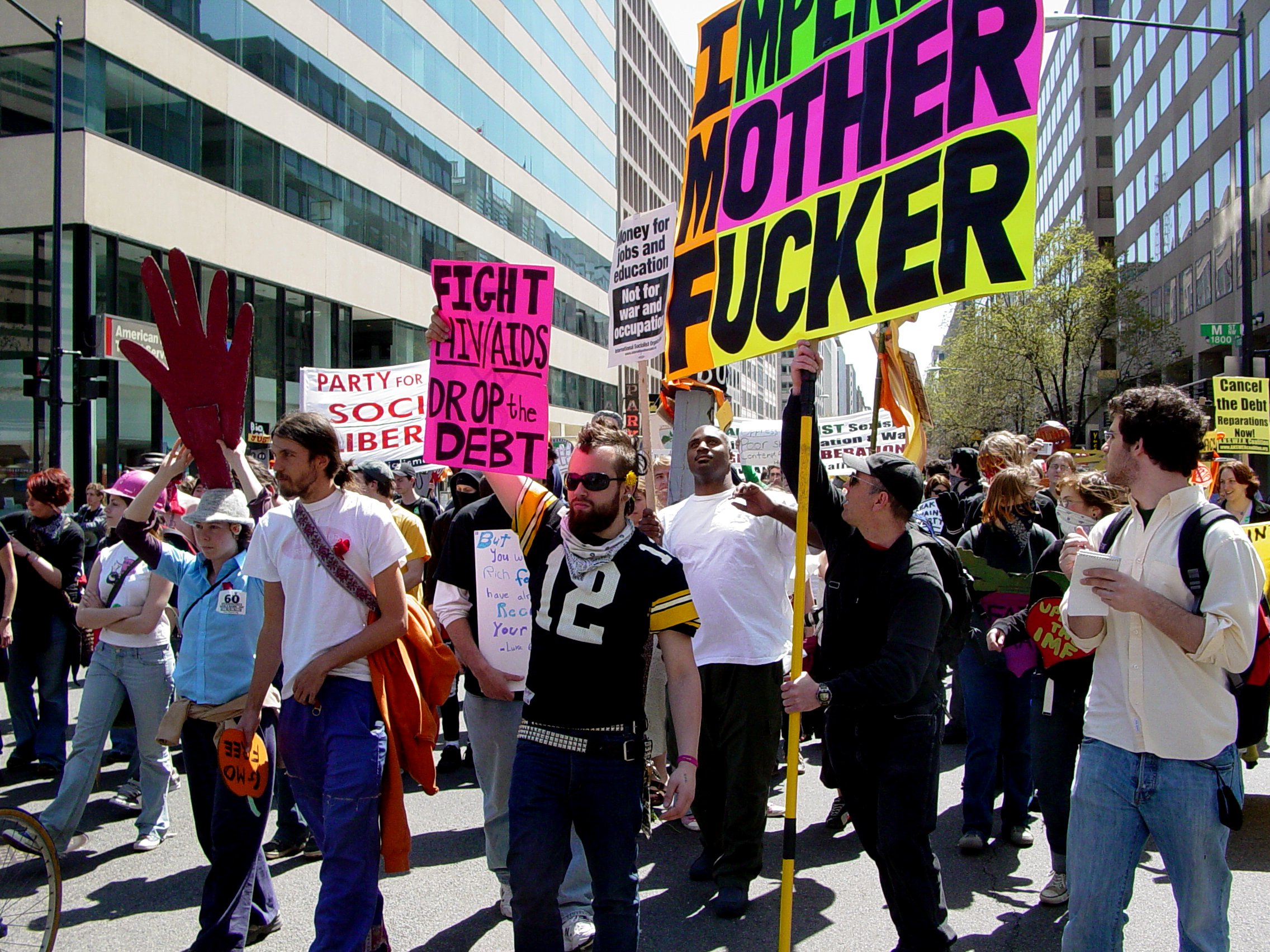 Demonstrators march through the intersection of 18th and M Streets NW in Washington, D.C. at a demonstration against the World Bank and International Monetary Fund on April 16, 2005.